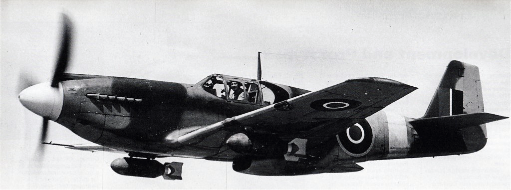 Sole RAF A-36A on demonstration flight showing 500 lb bombs.